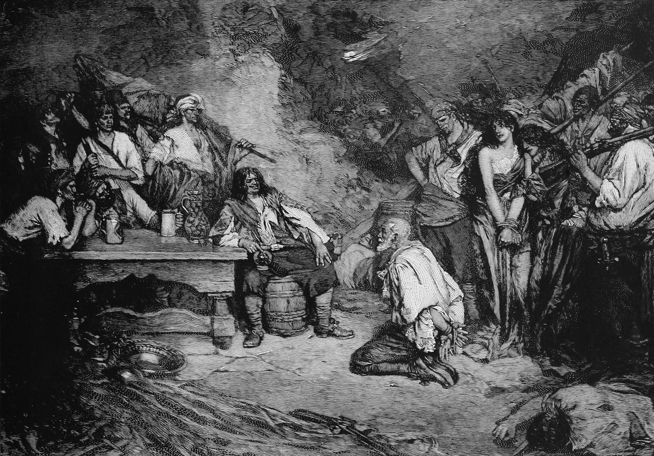 Morgan at Porto Bello: this was originally published in Pyle, Howard (December 1888). "Buccaneers and Marooners of the Spanish Main". Harper's Magazine.